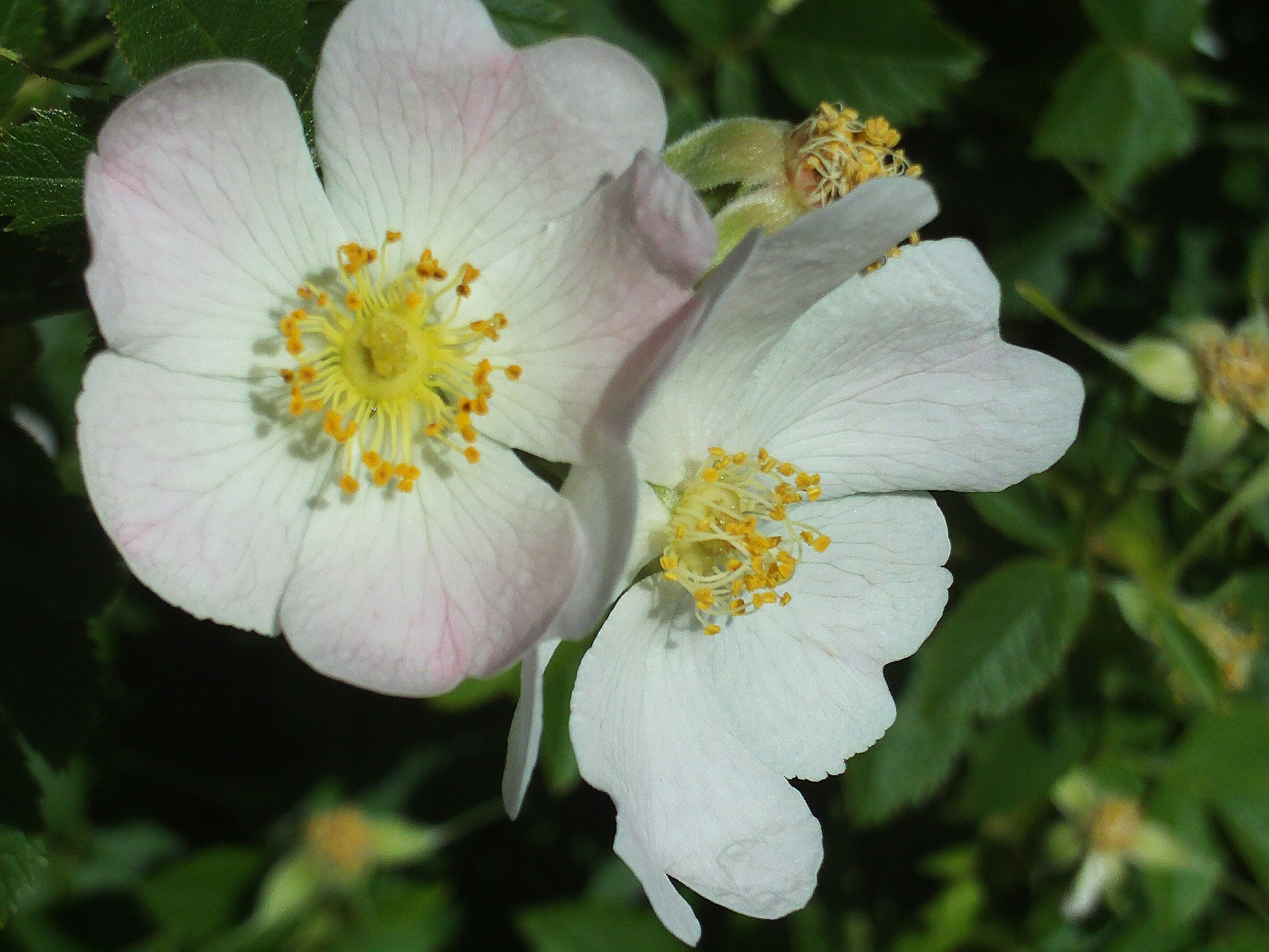 Rosa stylosa subsp. nevadensis flowers close up, Sierra Nevada, Spain